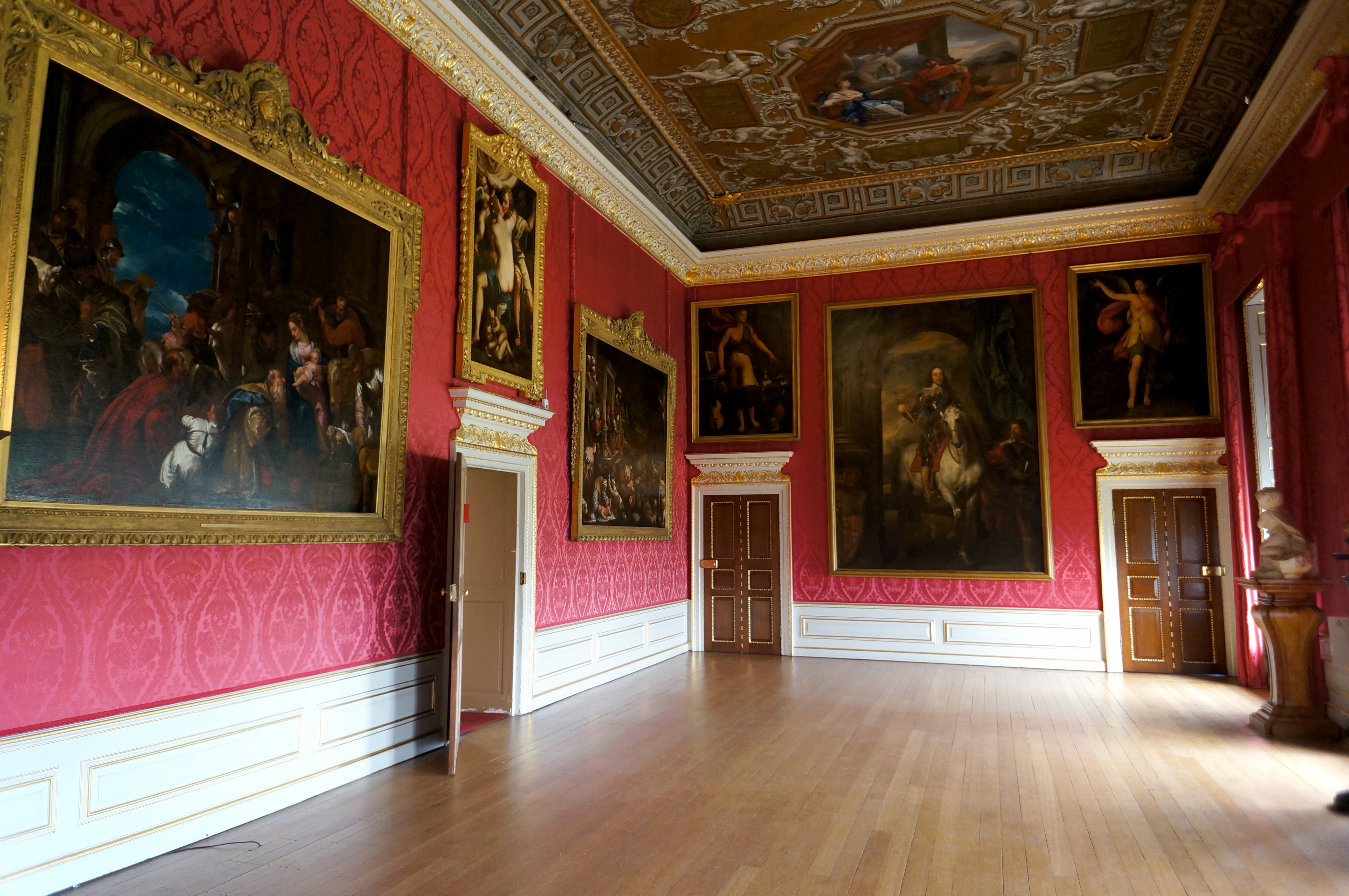 Paintings in the King's Gallery, Kensington Palace. Left to right: The Adoration of the Kings by Studio of Paolo Veronese (c. 1573-1666), Venus and Adonis Embracing by Italian School (c. 1580-1620), The Flood by Jacopo Bassano (c. 1570), Diligence by Italian School (c. 1530), Charles I with M. de St Antoine after Anthony van Dyck (1700s), and Fame by Italian School (c. 1530).